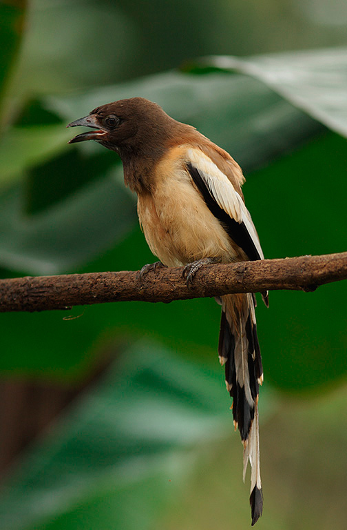 Juvenile Rufous Treepie (Dendrocitta vagabunda) in Western Ghats, India.